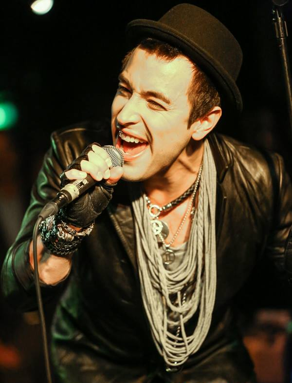 Ray Scott Pardue in a live session